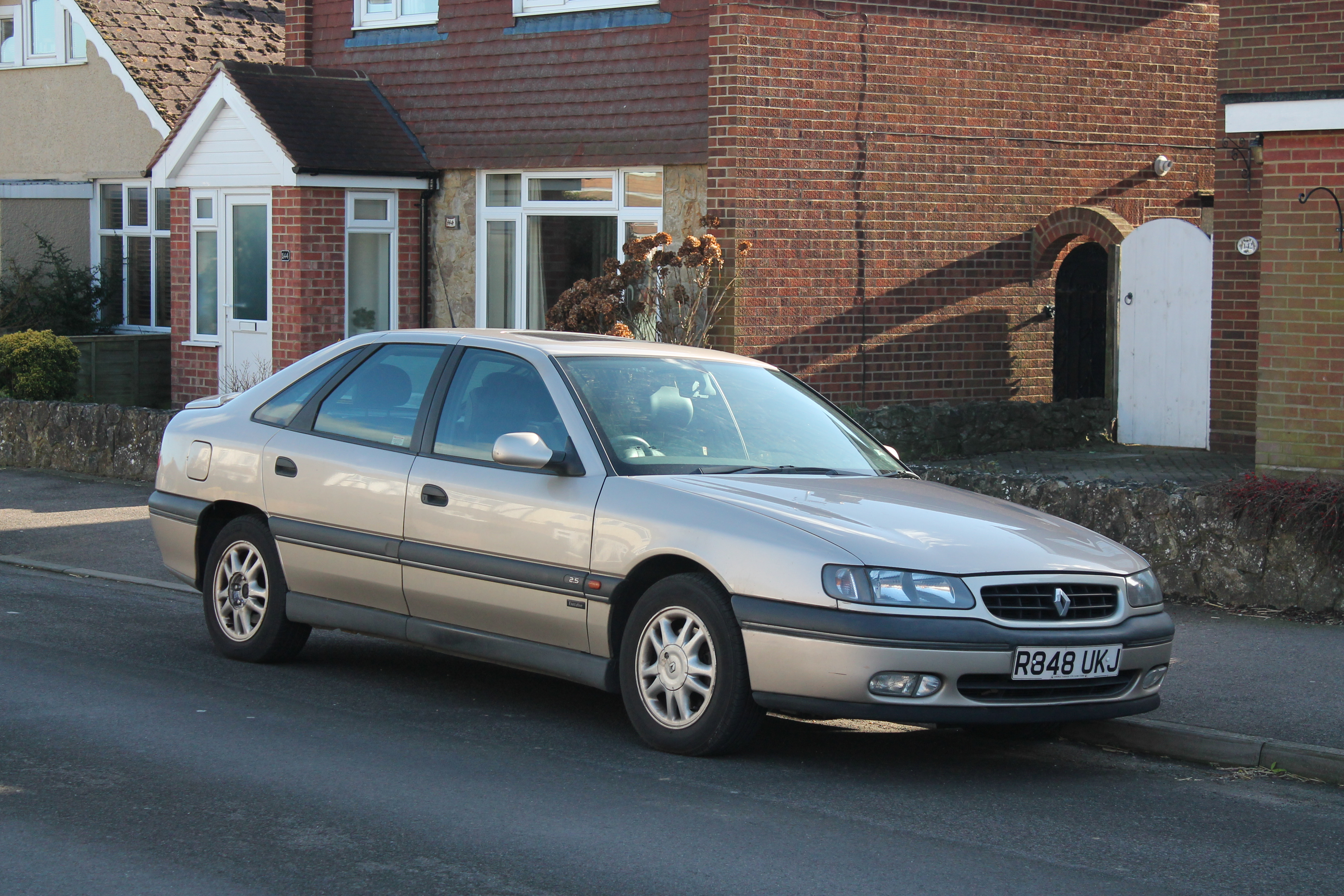 Not many of these outside London in my experience. I like these big French cars, but were never very good sellers over here. Still saw at least one on every street over in France last year... Registration number: R848 UKJ ✔ Taxed Tax due: 01 August 2015 ✔ MOT Expires: 26 July 2015